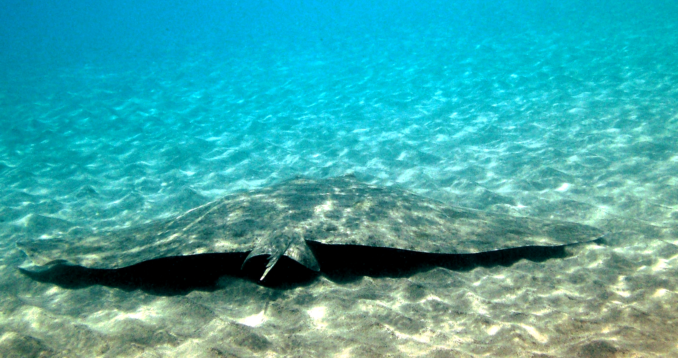 Butterfly ray (Gymnura altavela), 2m under water, 30m from the shore/beach